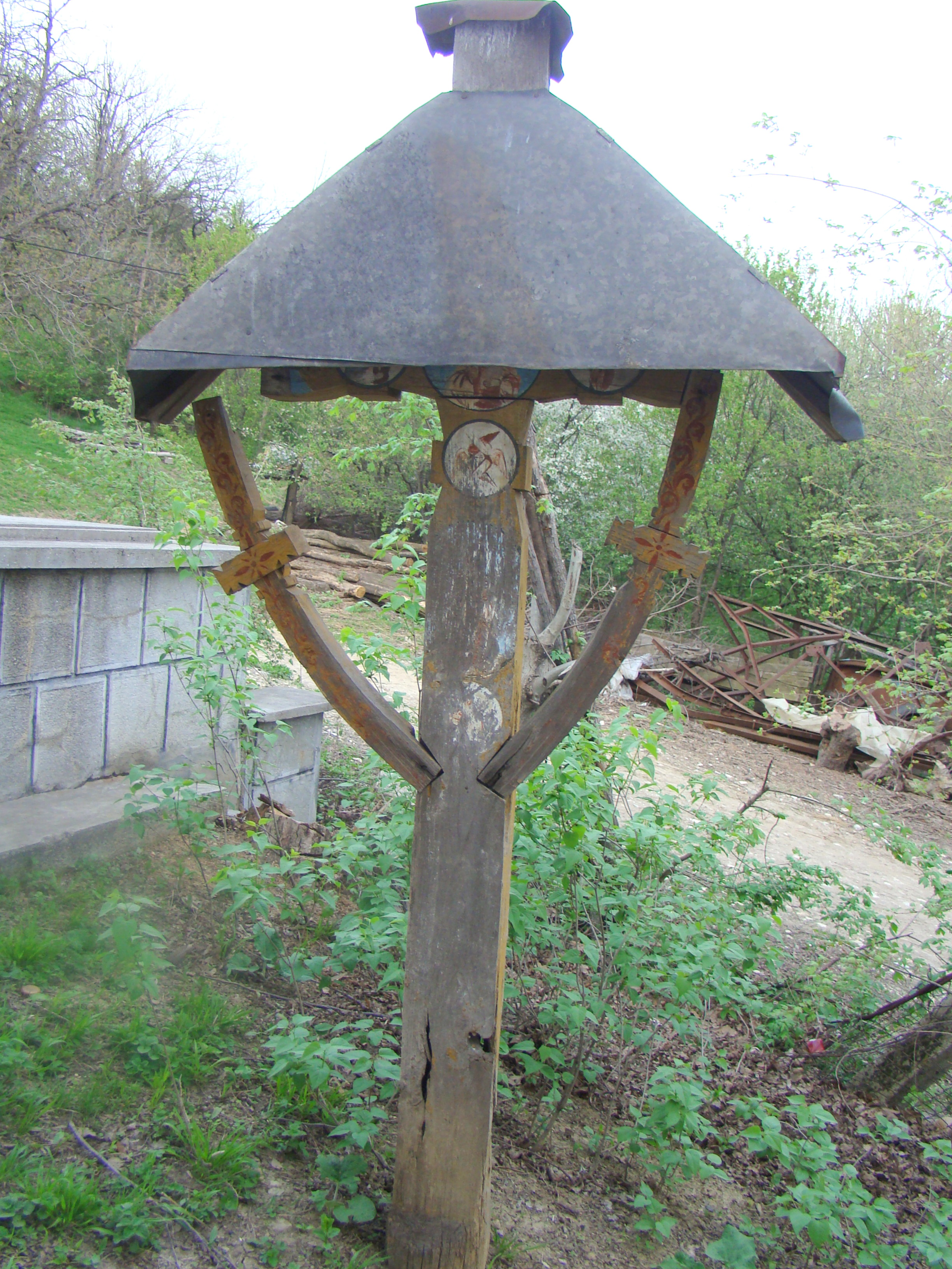 Wooden church in Miculești, Gorj county, Romania